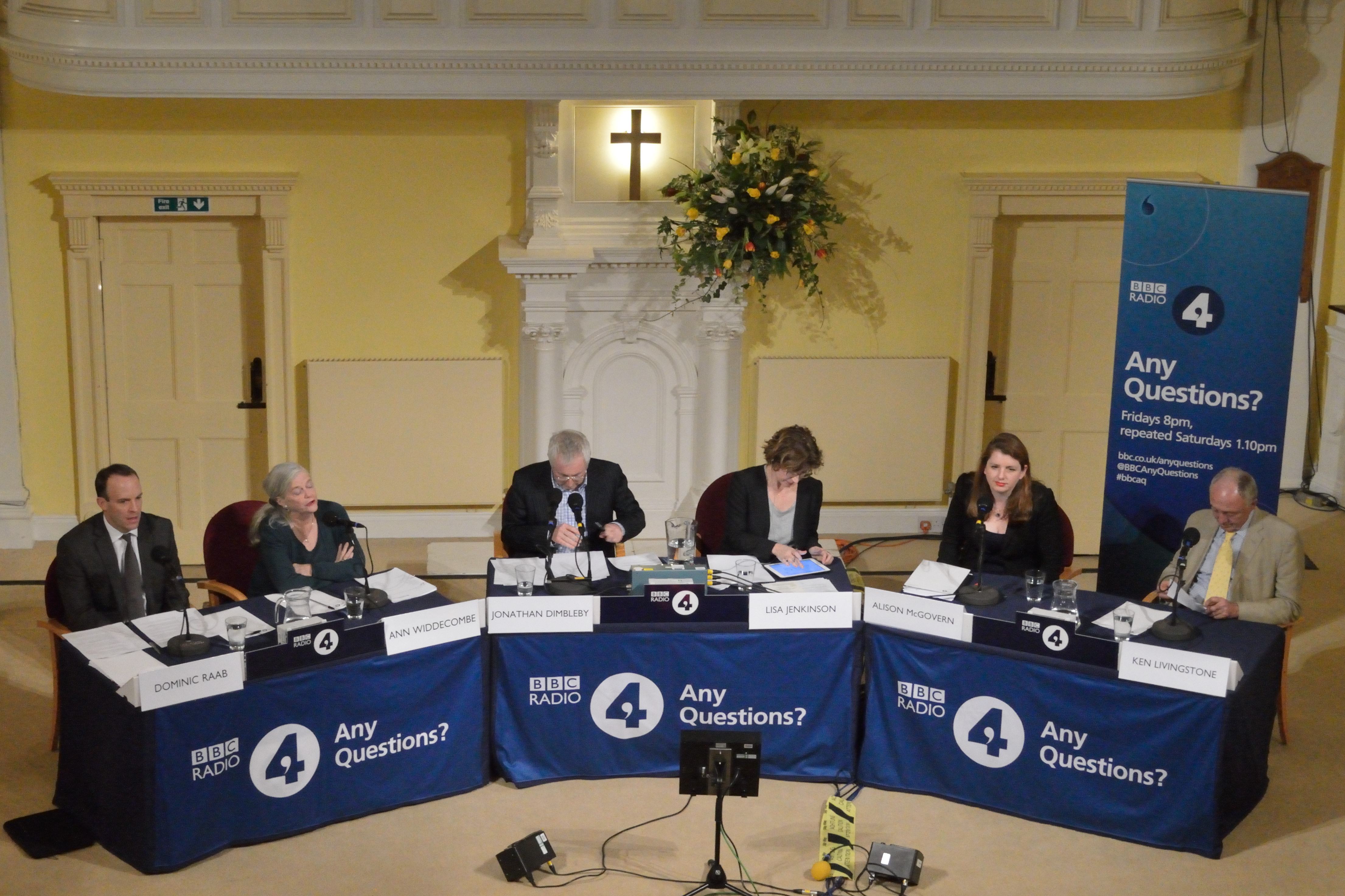 Just before the BBC Radio 4 Any Questions? programme started at the Nexus Methodist Church, Bath, on 15 January 2016. The panel included the joint chair of Labour's Defence Review Ken Livingstone, the chair of Progress Alison McGovern MP, Justice Minister Dominic Raab MP and the former Conservative minister Ann Widdecombe.[1] Presenter Jonathan Dimbleby and producer Lisa Jenkinson are in the centre of the panel. The Nexus Methodist Church was celebrating its 200th anniversary.[2]